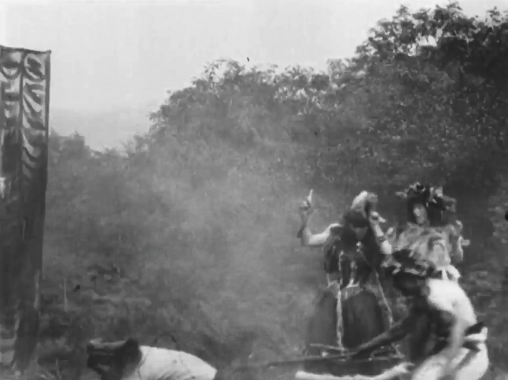 Screen capture of Kidnapping by Indians (1899).